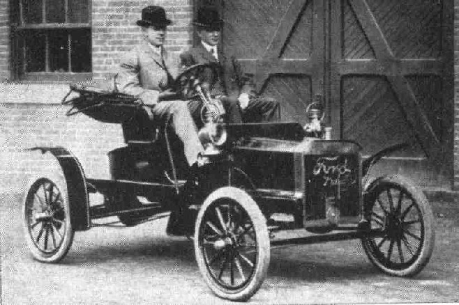 Henry Ford riding in a Ford Model N around 1906. The building in the background is the Ford Piquette Avenue Plant in Detroit, Michigan, where the car was made.